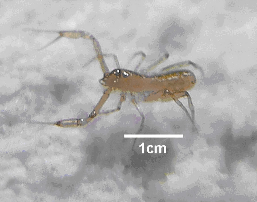 Invertebrates from Ayyalon Cave, Israel. Ayyalonia dimentmani (Photo I. Naaman)